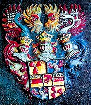 Frankenstein crest in the guildhall of Darmstadt-Eberstadt